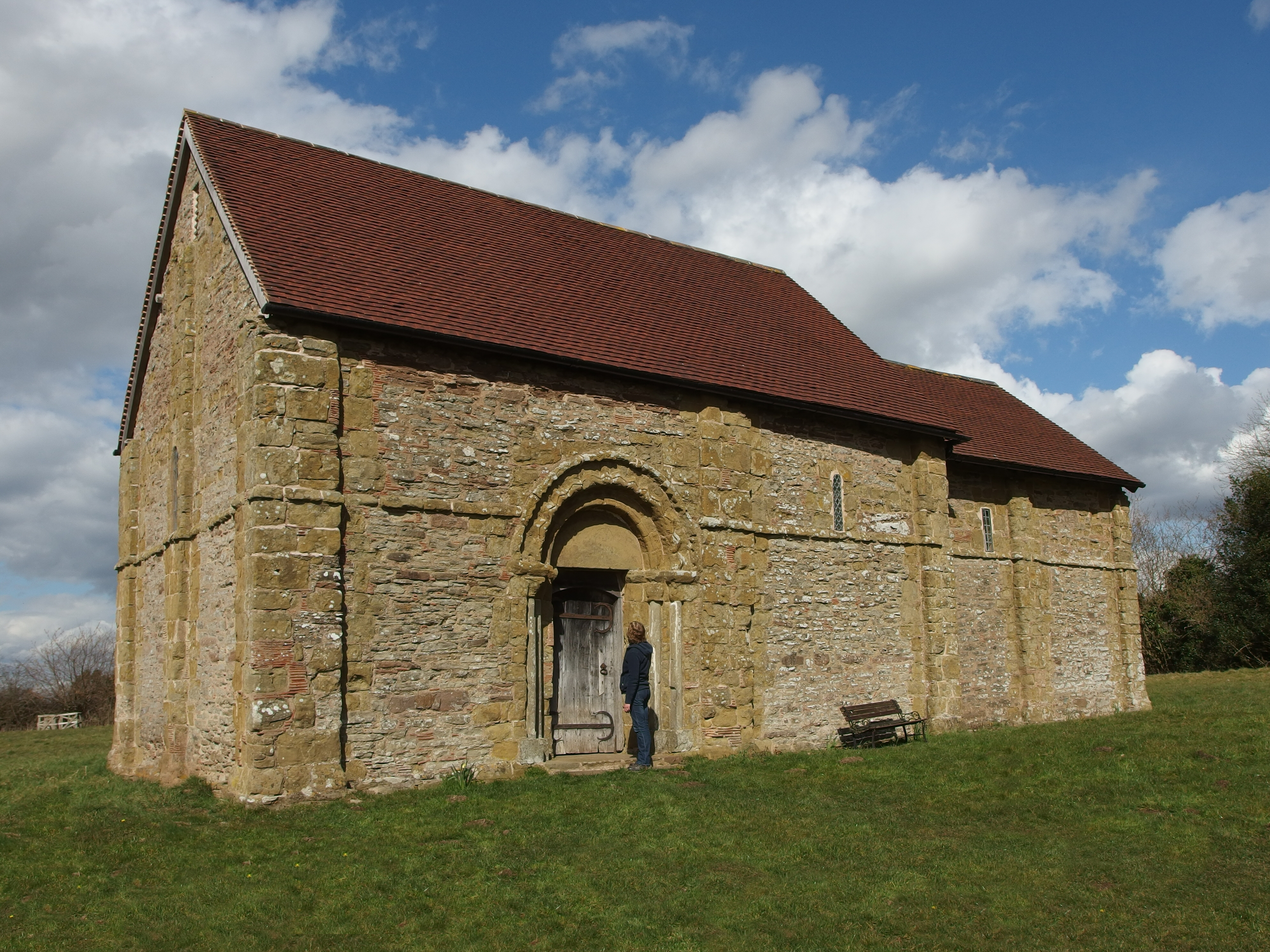 Heath Chapel, Shropshire, seen from the south